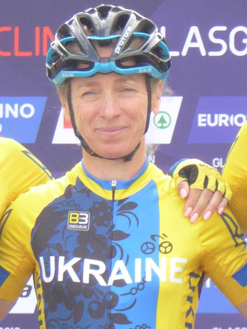 Yevheniya Vysotska (Ukraine), prior to the women's road race at the 2018 UEC European Road Cycling Championships in Glasgow.